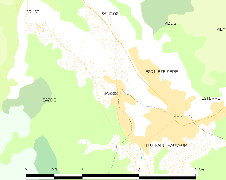 Map of French municipality